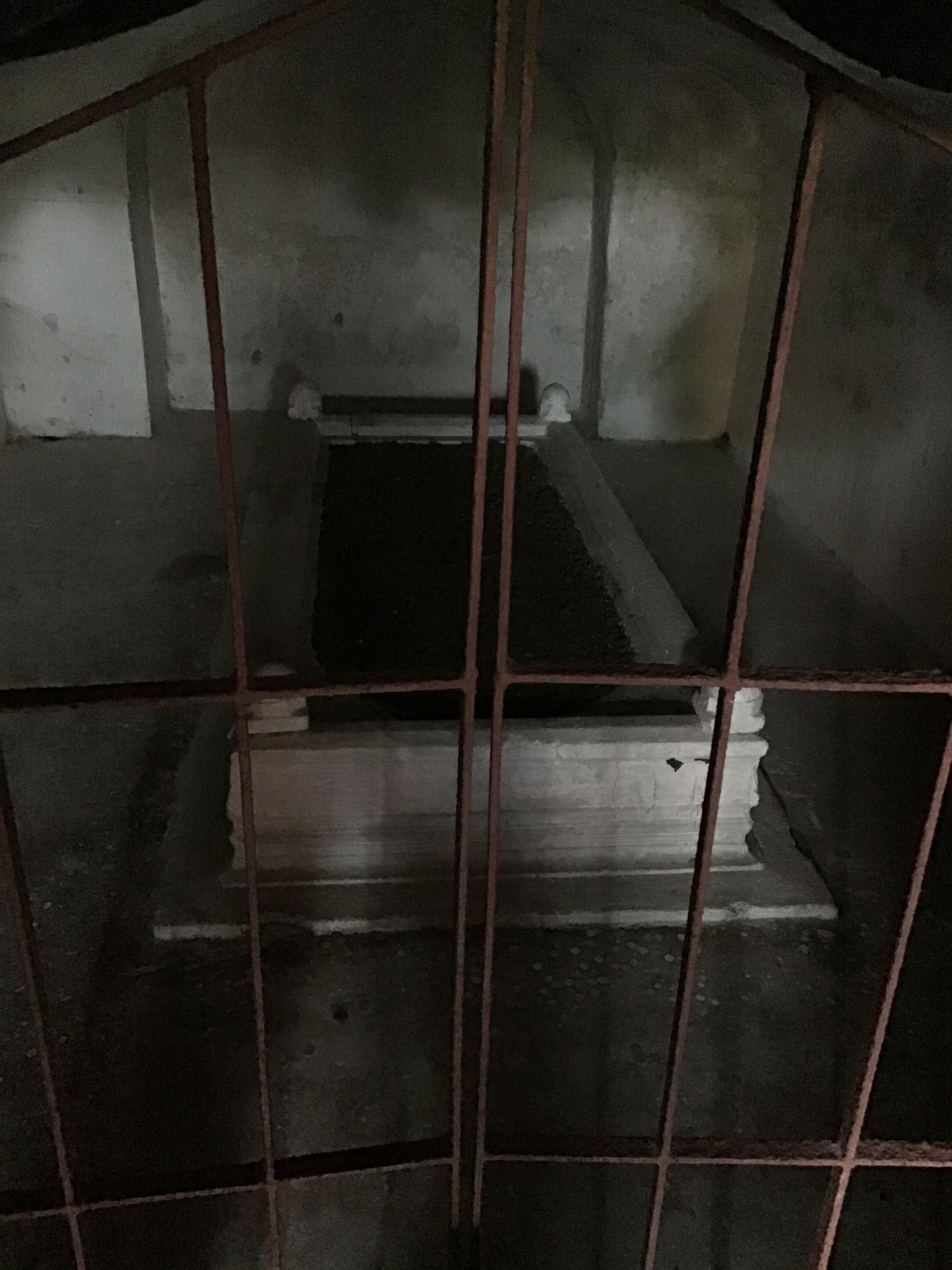 Tomb of Murshid Quli Khan, uunder the staircase of Katra Masjid, Murshidabad